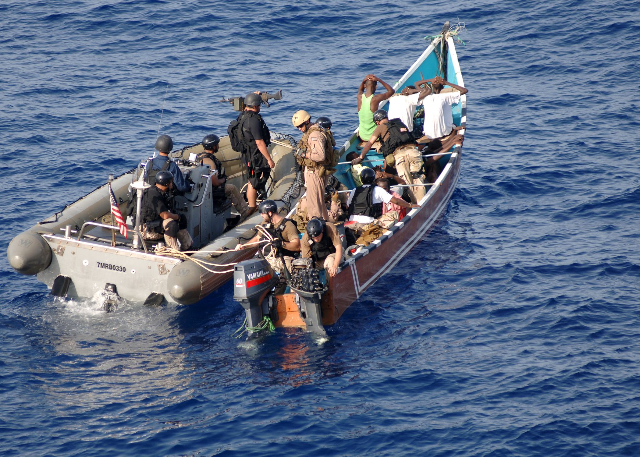 U.S. Navy sailors control a vessel suspected of pirate activity in the Gulf Aden, May 31, 2010. The sailors were stationed aboard the guided missile cruiser USS San Jacinto off of the east coast of Somalia.